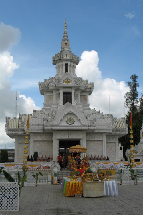 Nakhon Si Thammarat City Pillar Shrine